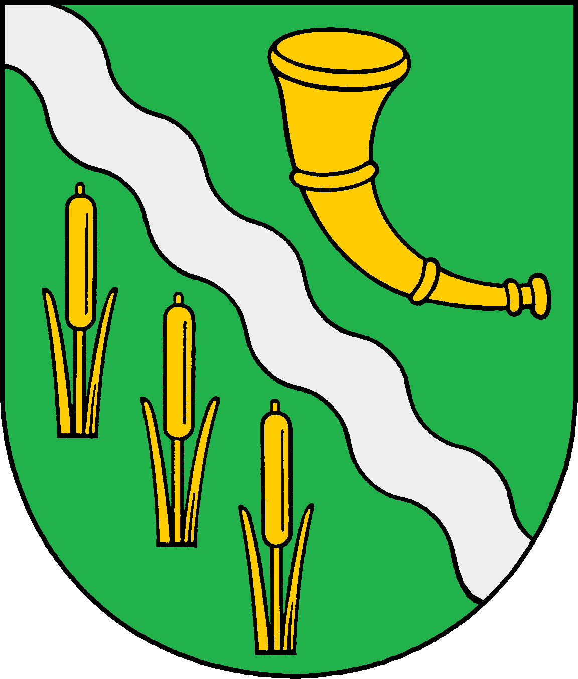 Coat of arms of the municipality Osterhorn in Schleswig-Holstein, Germany.